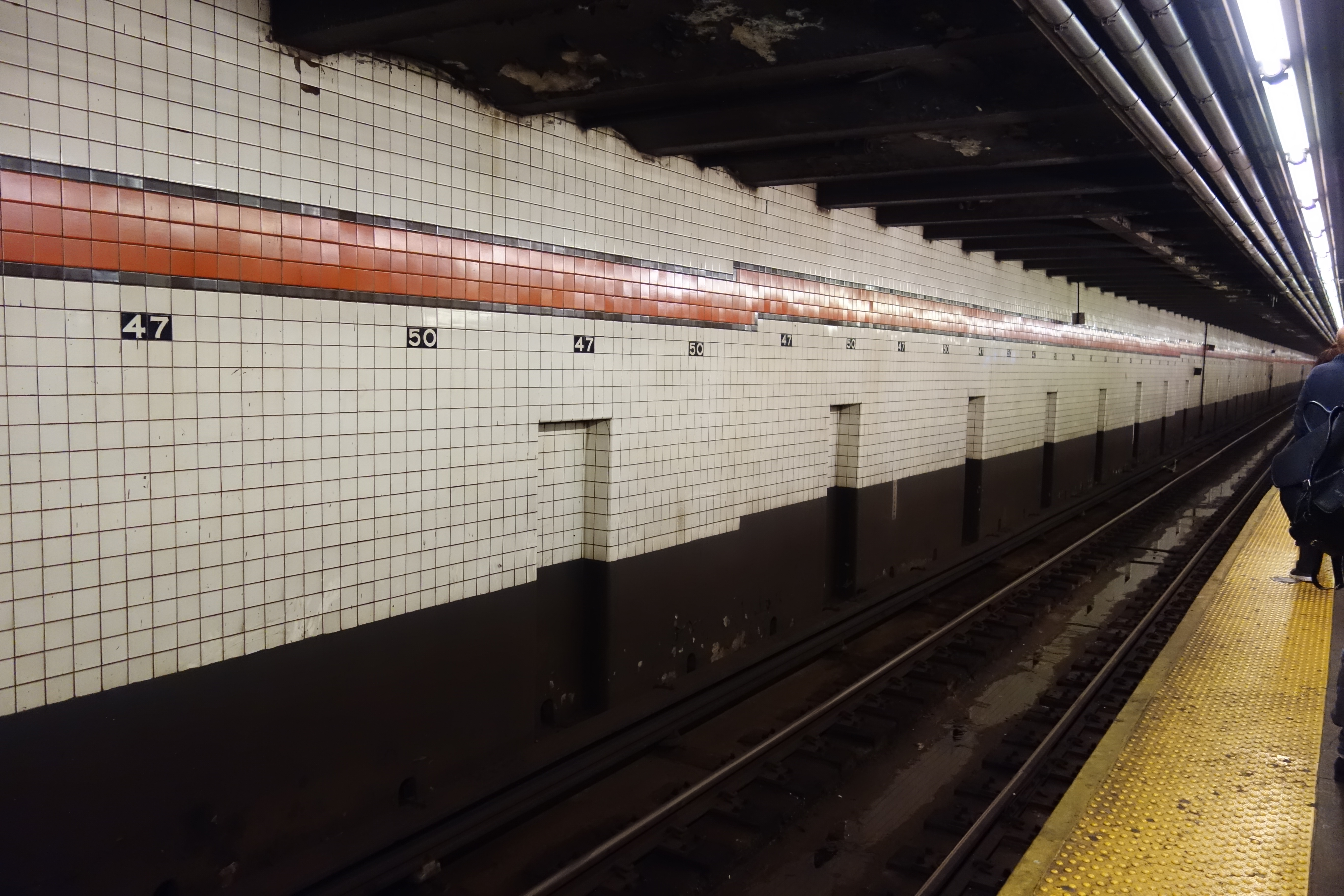 Looking north up the outer express track at the south end of the Downtown platform of the 47th–50th Streets–Rockefeller Center station of the IND Sixth Avenue Line in Midtown Manhattan.